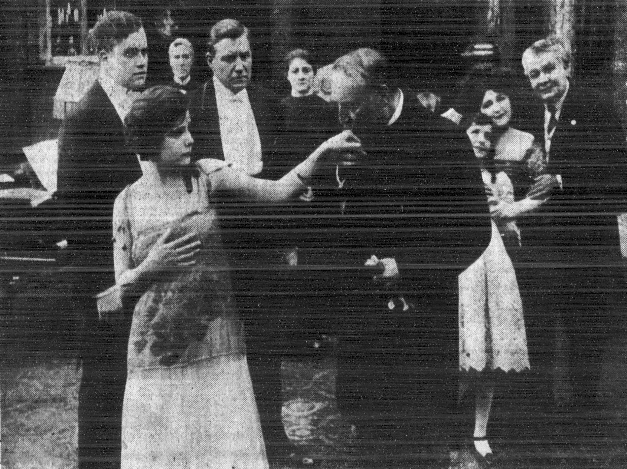 The Battle Cry of Peace is a 1915 American silent war drama film directed by Wilfrid North and J. Stuart Blackton, one of the founders of Vitagraph Company of America who also wrote the scenario. This is a scene from the film published in a contemporary newspaper.